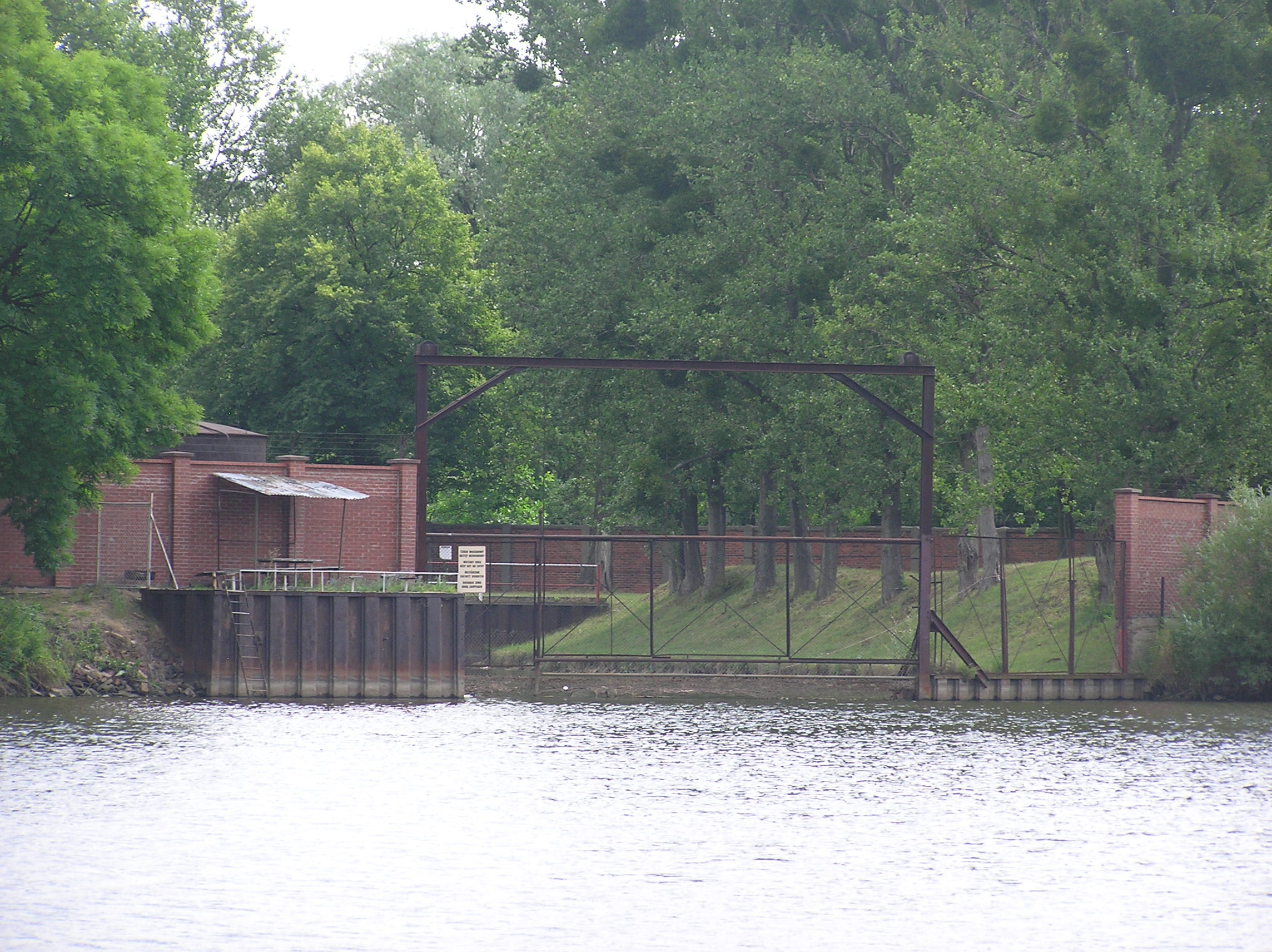 Wrocław, Military port of transshipment of liquid fuels